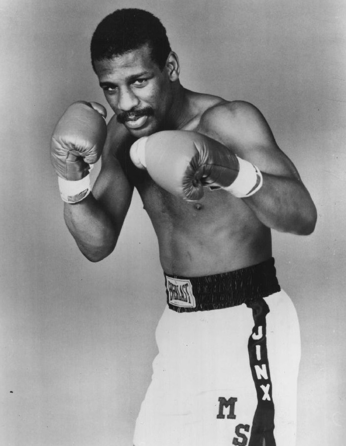 Michael Spinks in 1987